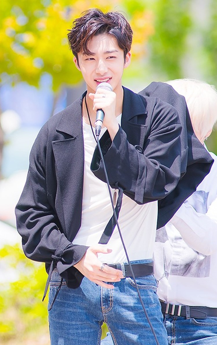 Chae Hyung-won at a fanmeet on May 21, 2016.